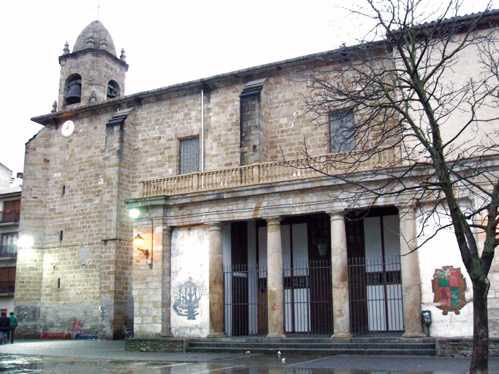 Iglesia parroquial de Nuestra Señora de la Asunción, Alsasua (Navarra, España)